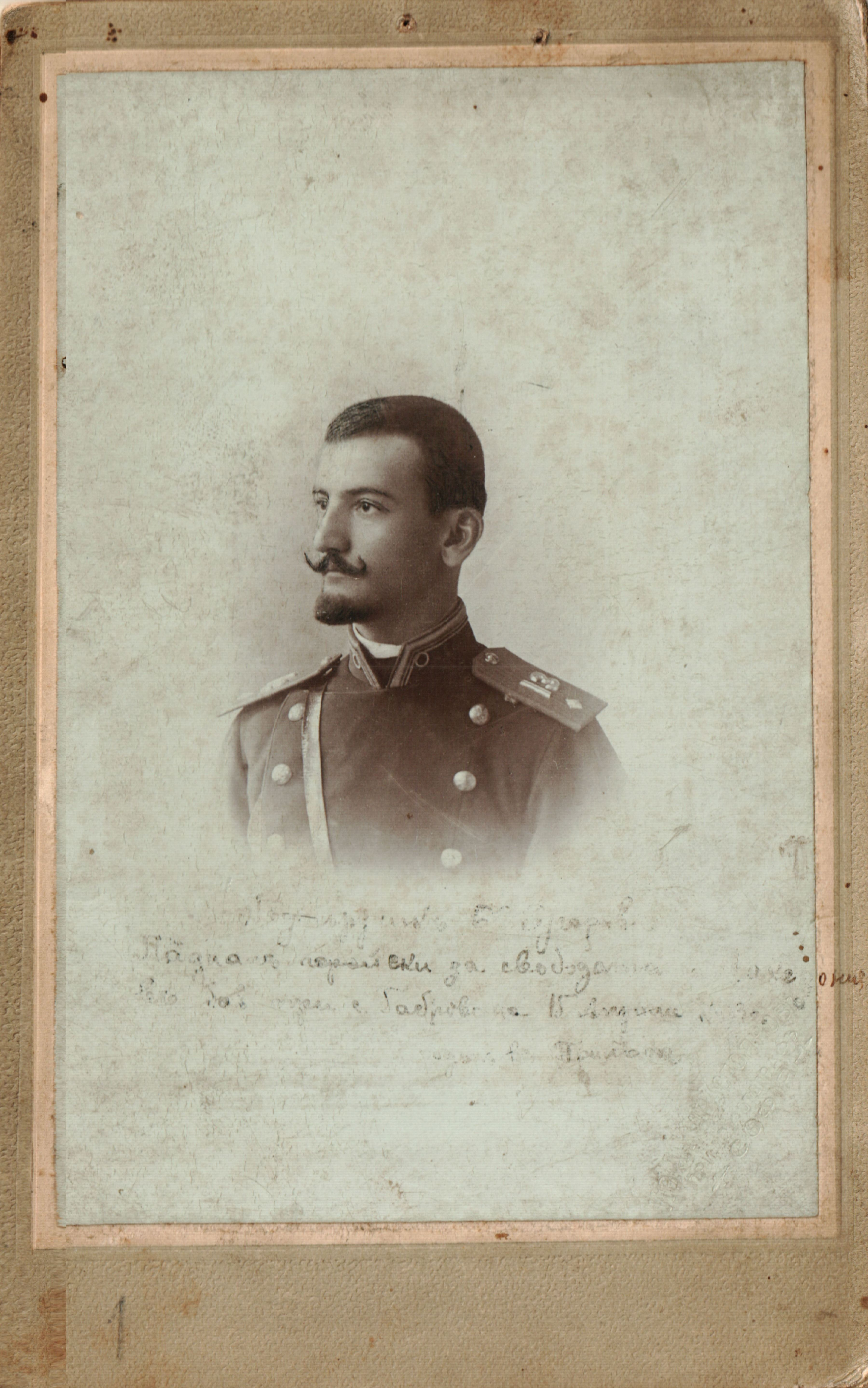 B. Sugarov